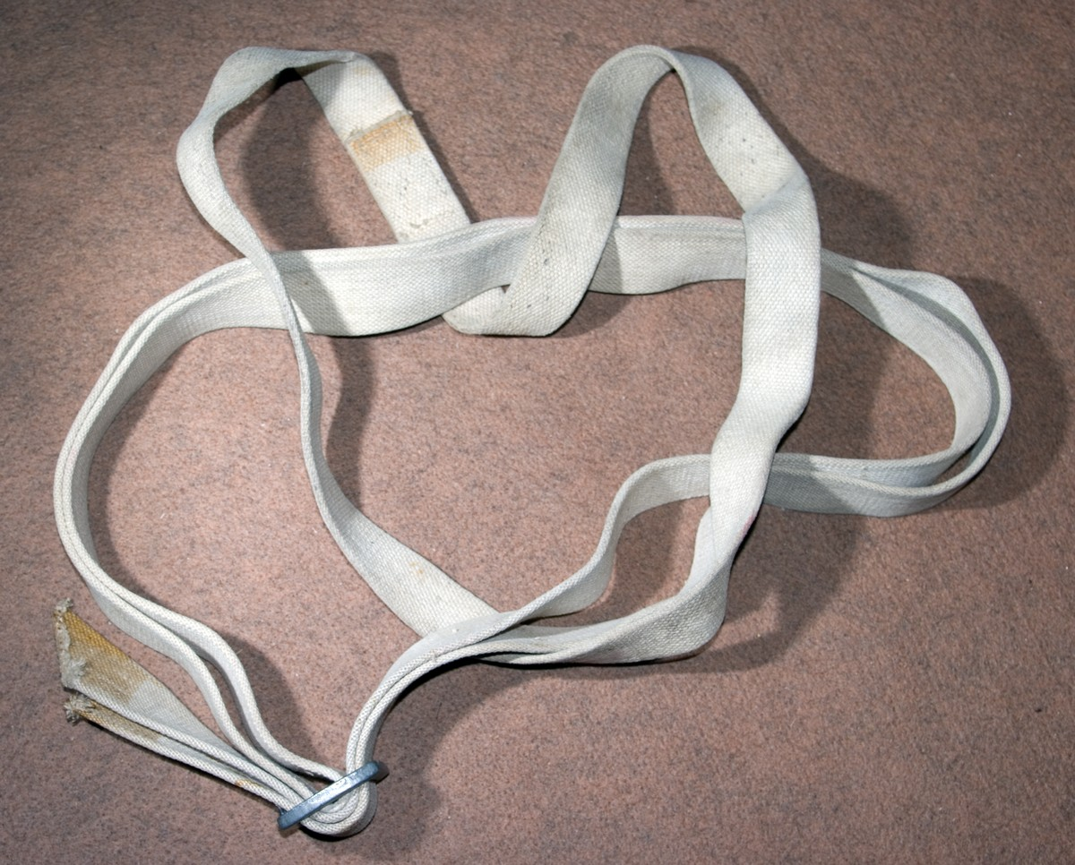 Abalakov's Belt (a simple climbing harness developed by Soviet alpinist Vitaly Abalakov).